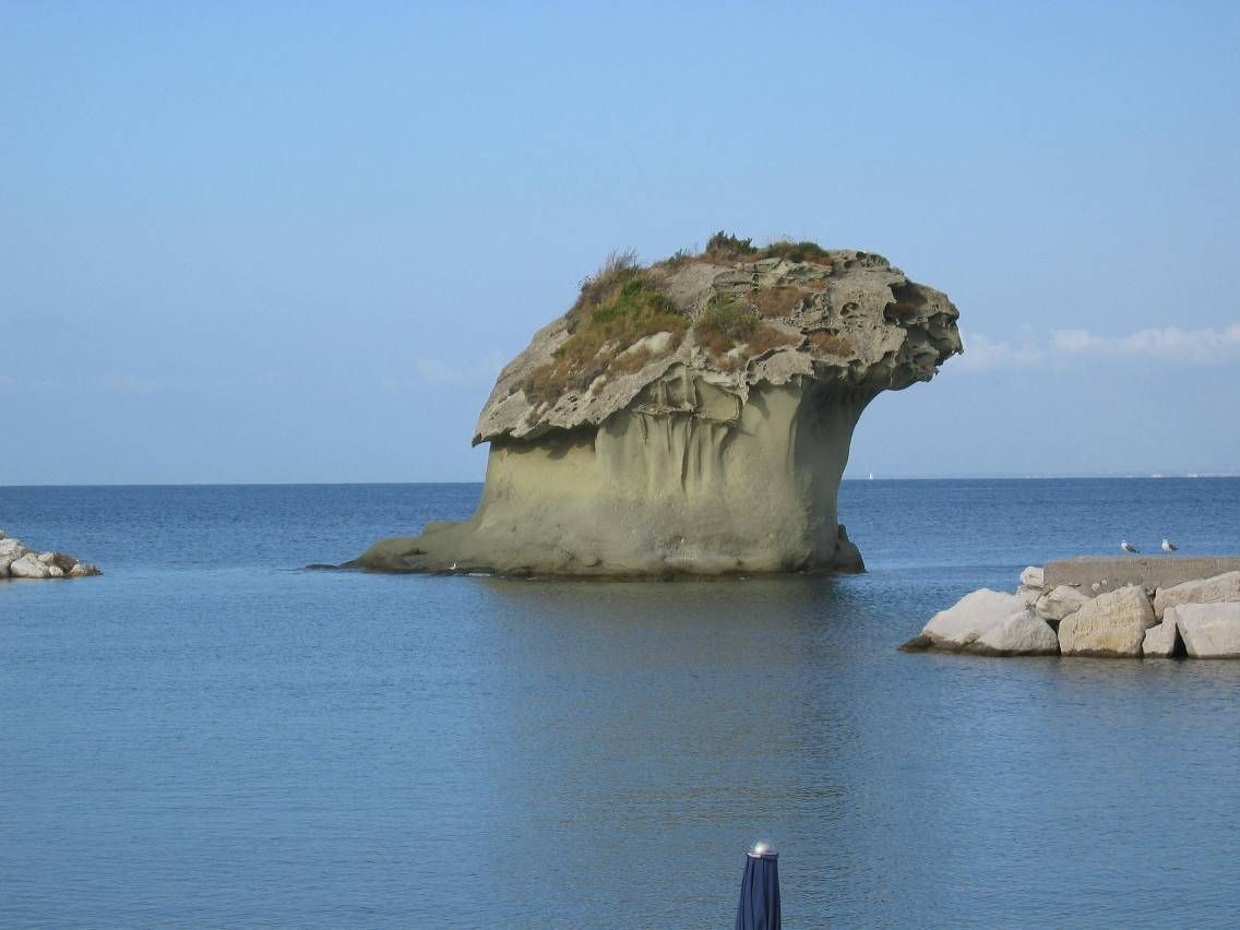 Photo of 'Il Fungo', a rock just off shoreline of Lacco Ameno, Ischia, Italy. "Il Fungo" means mushroom in Italian.